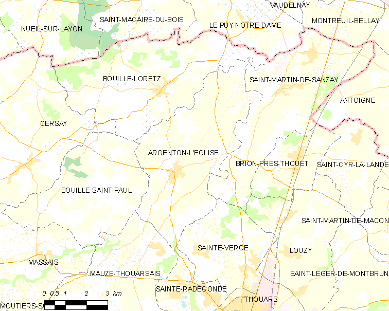 Map of French municipality Argenton-l'Église